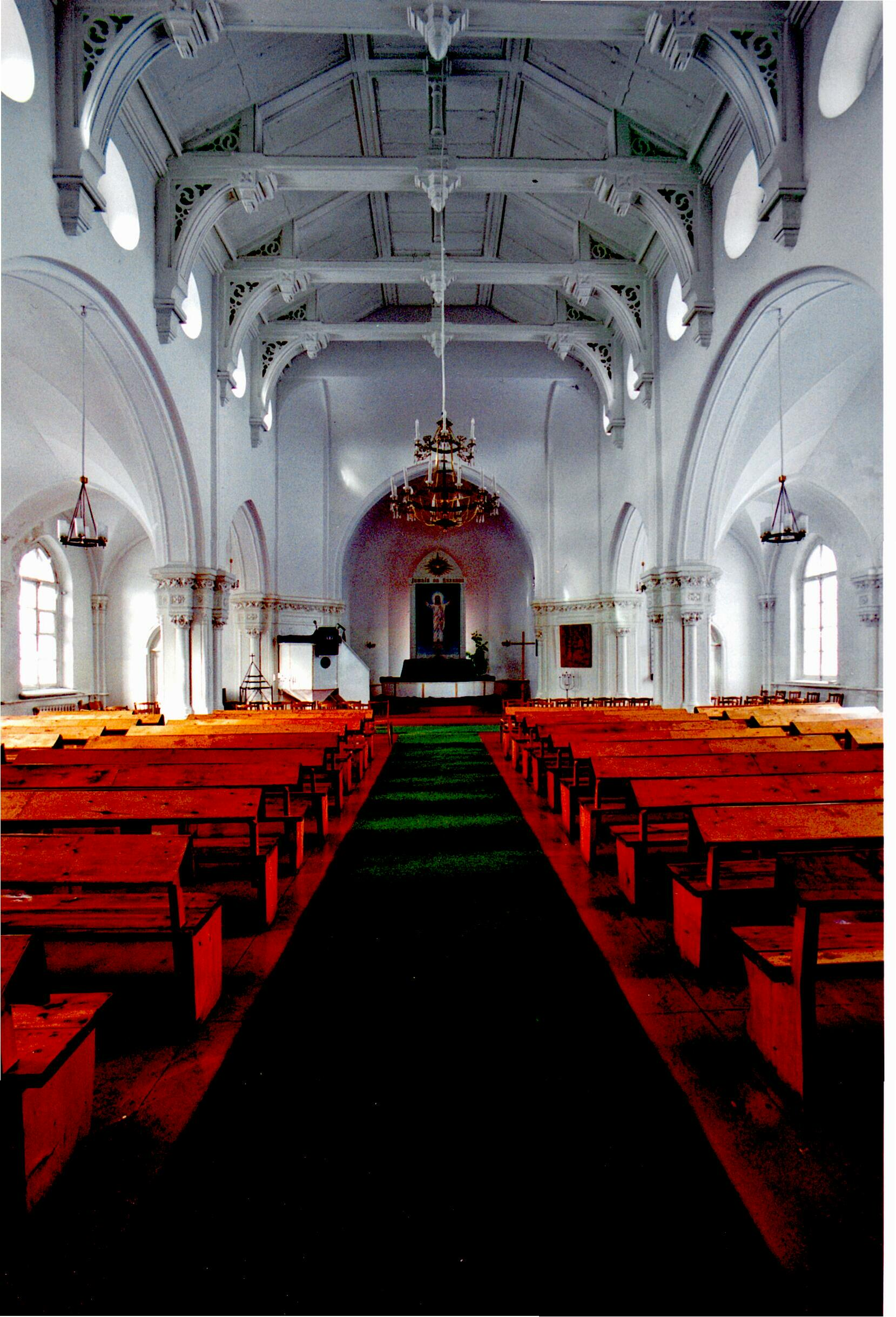 Lutheran church in neo-gothic style (1865) St.Petersburg. Pushkin